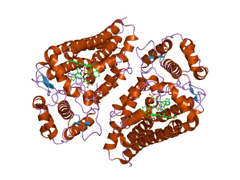 Cartoon representation of the molecular structure of protein registered with 2d0t code.